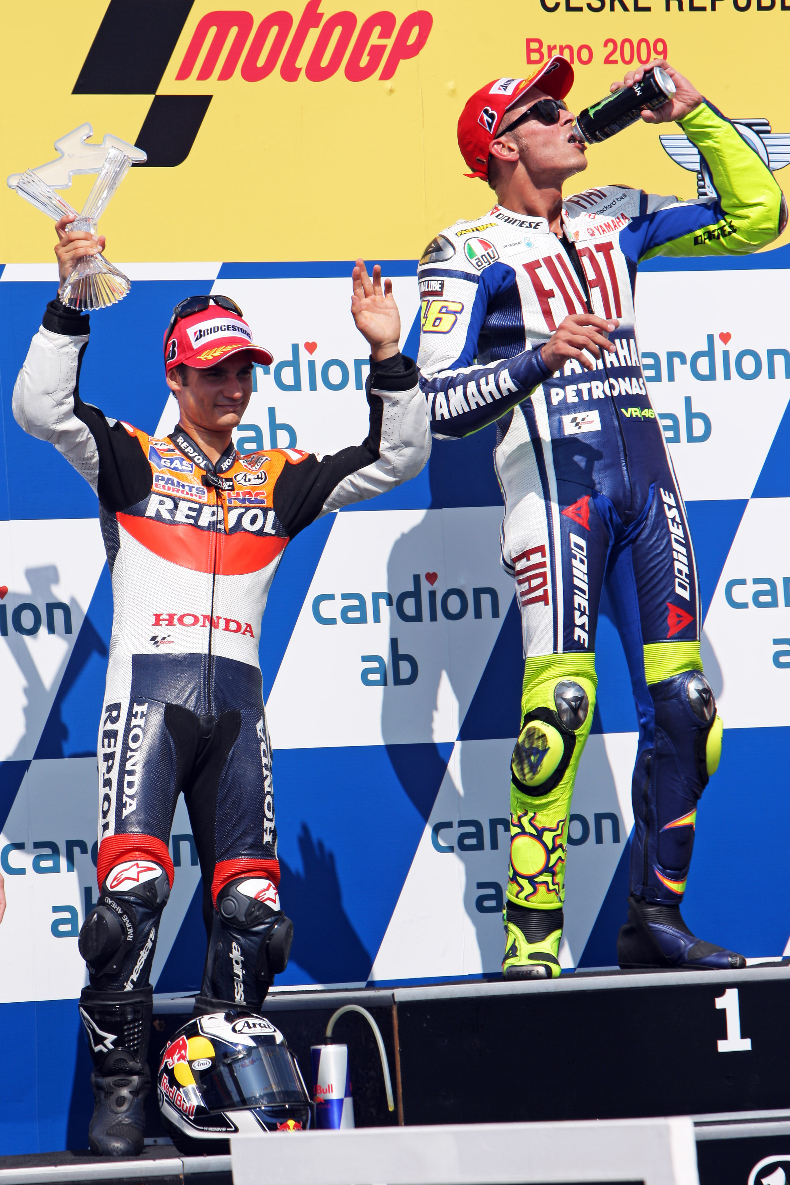 Dani Pedrosa (lifting his trophy) and Valentino Rossi, celebrating on the podium after finishing in second and first position at the 2009 Czech Republic Grand Prix.